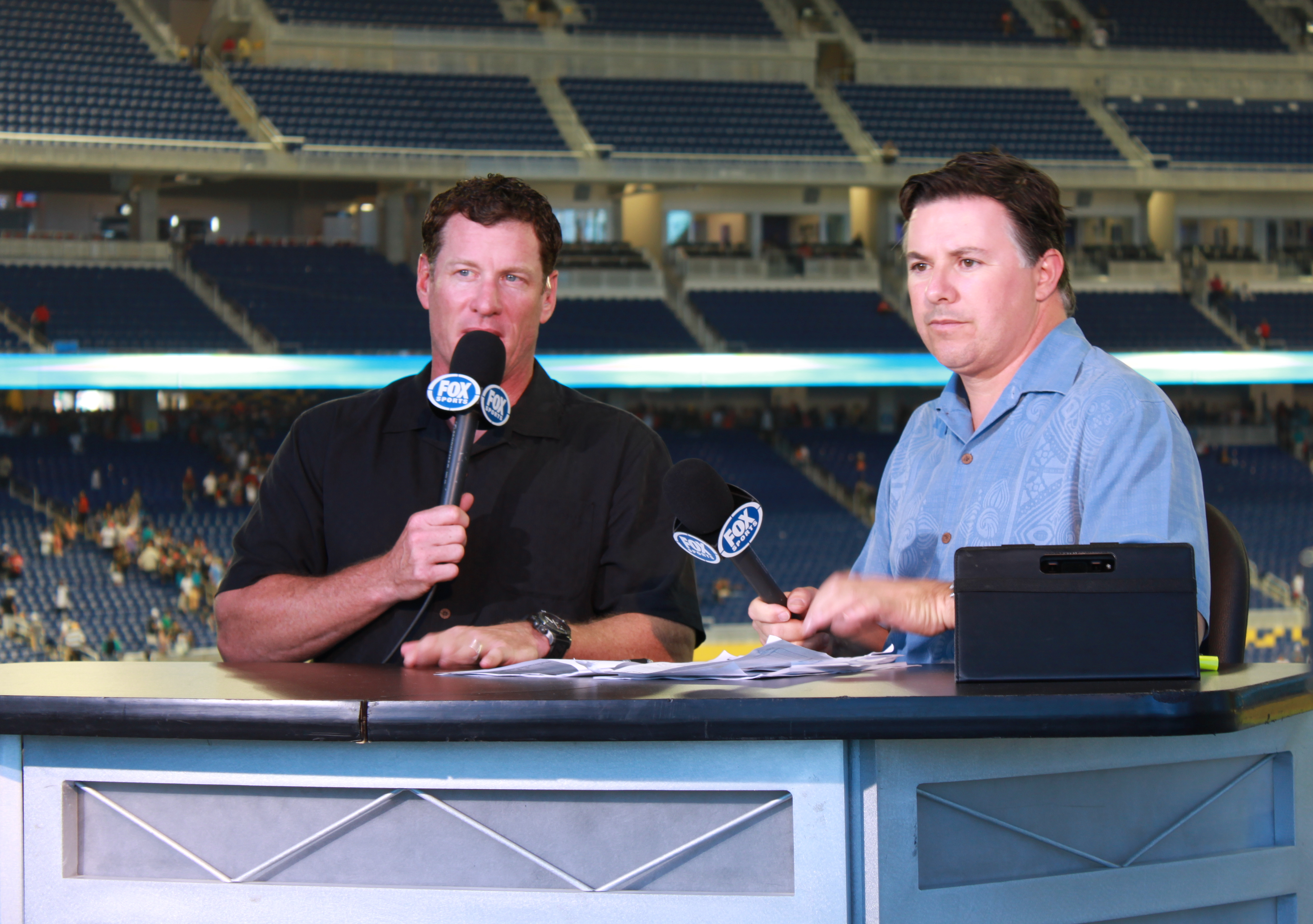 Jeff Conine in the postgame Fox Sports show Houston Astros against the Florida Marlins.